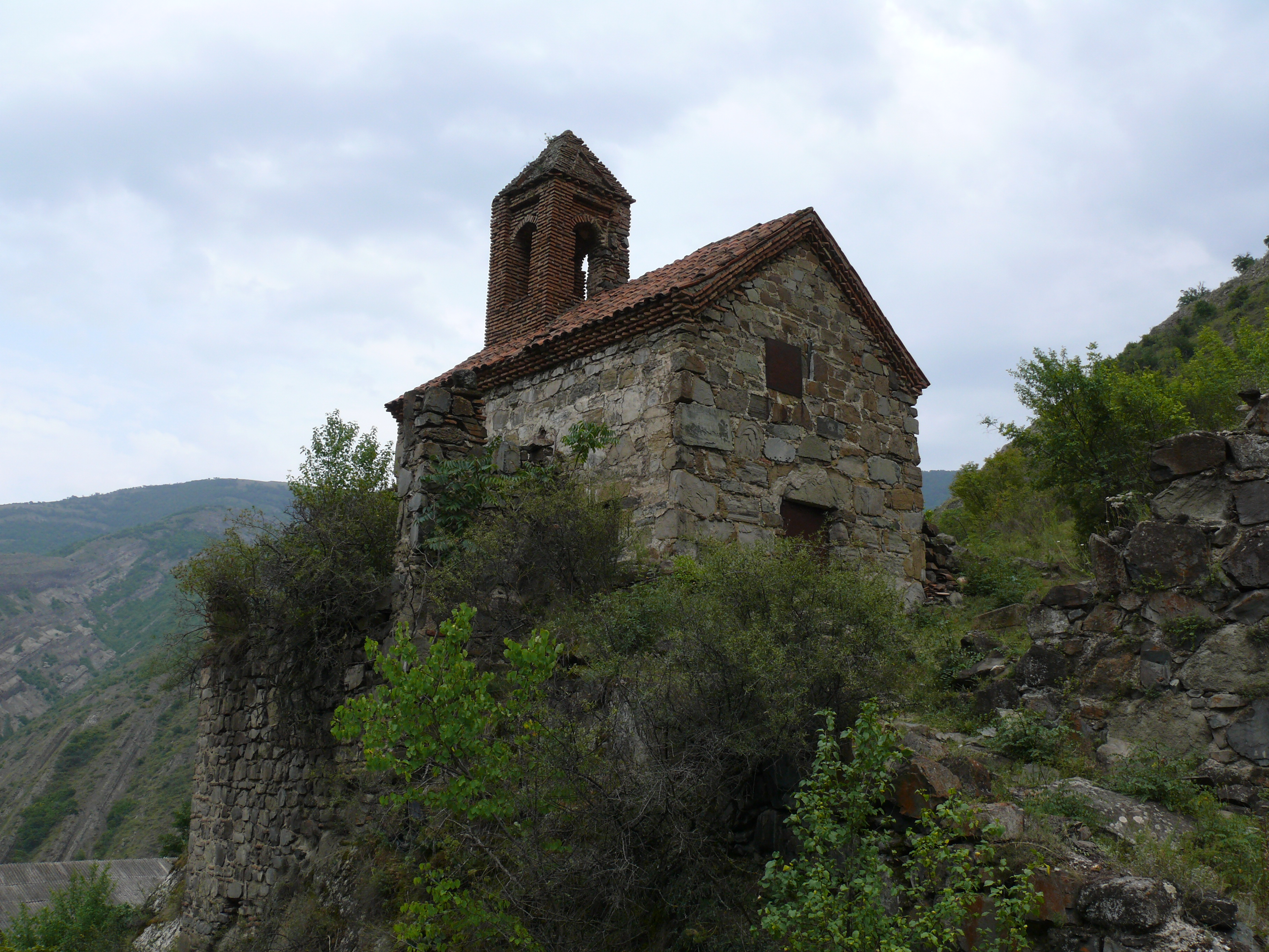 Church of big Ateni